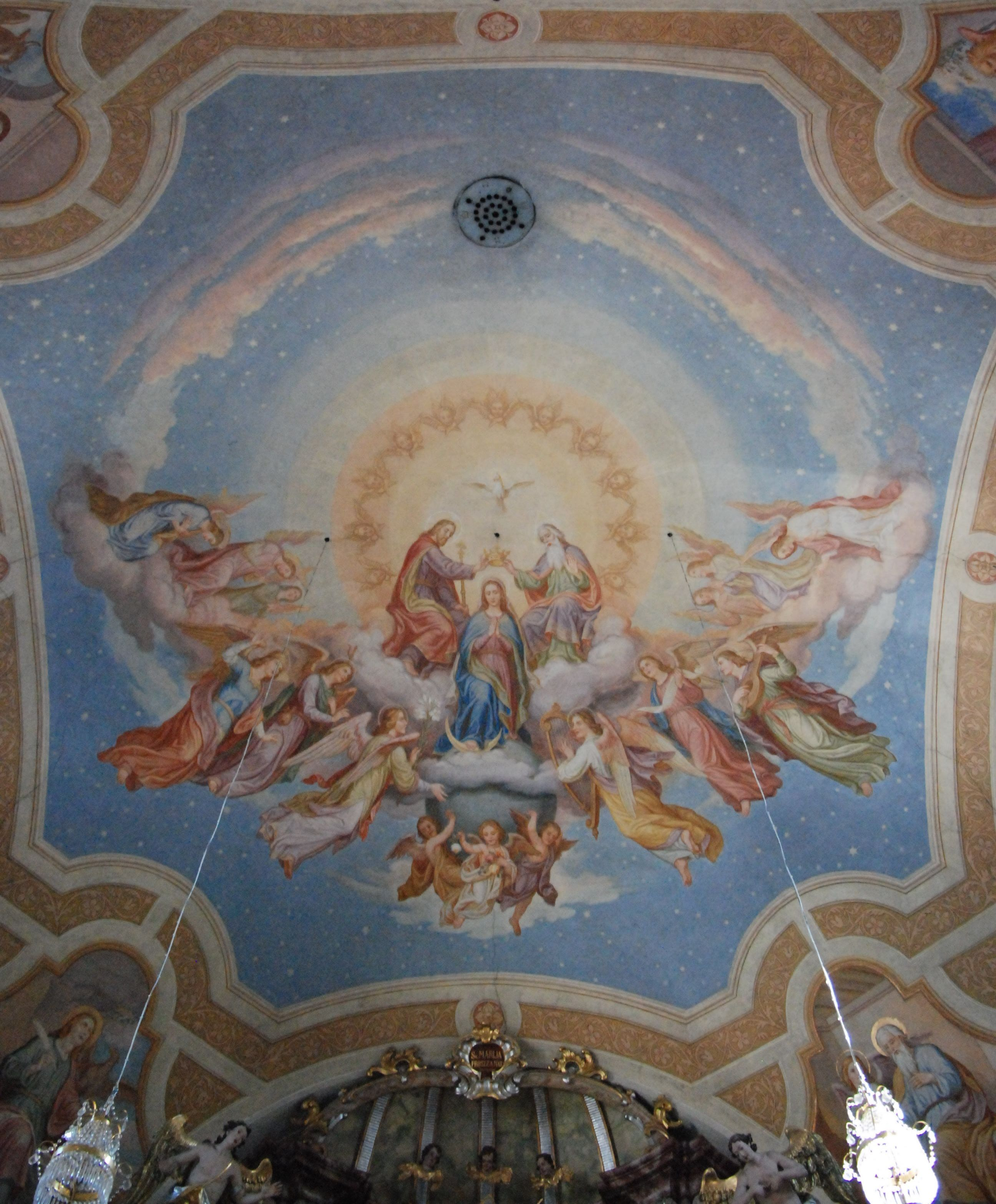 A fresco by Matevž Langus in Assumption of Mary Parish Church in Trebnje, Slovenia. Below the image it is written: "Holy Mary, pray for us!"